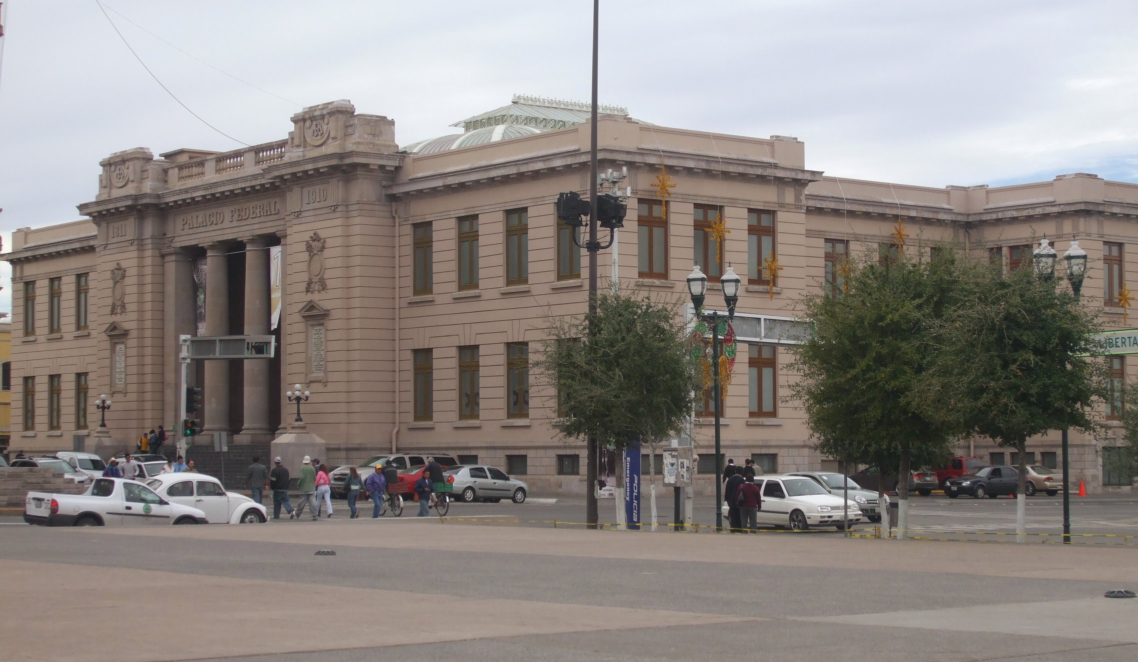 Former Federal Palace, Chihuahua, Mexico, from the front.